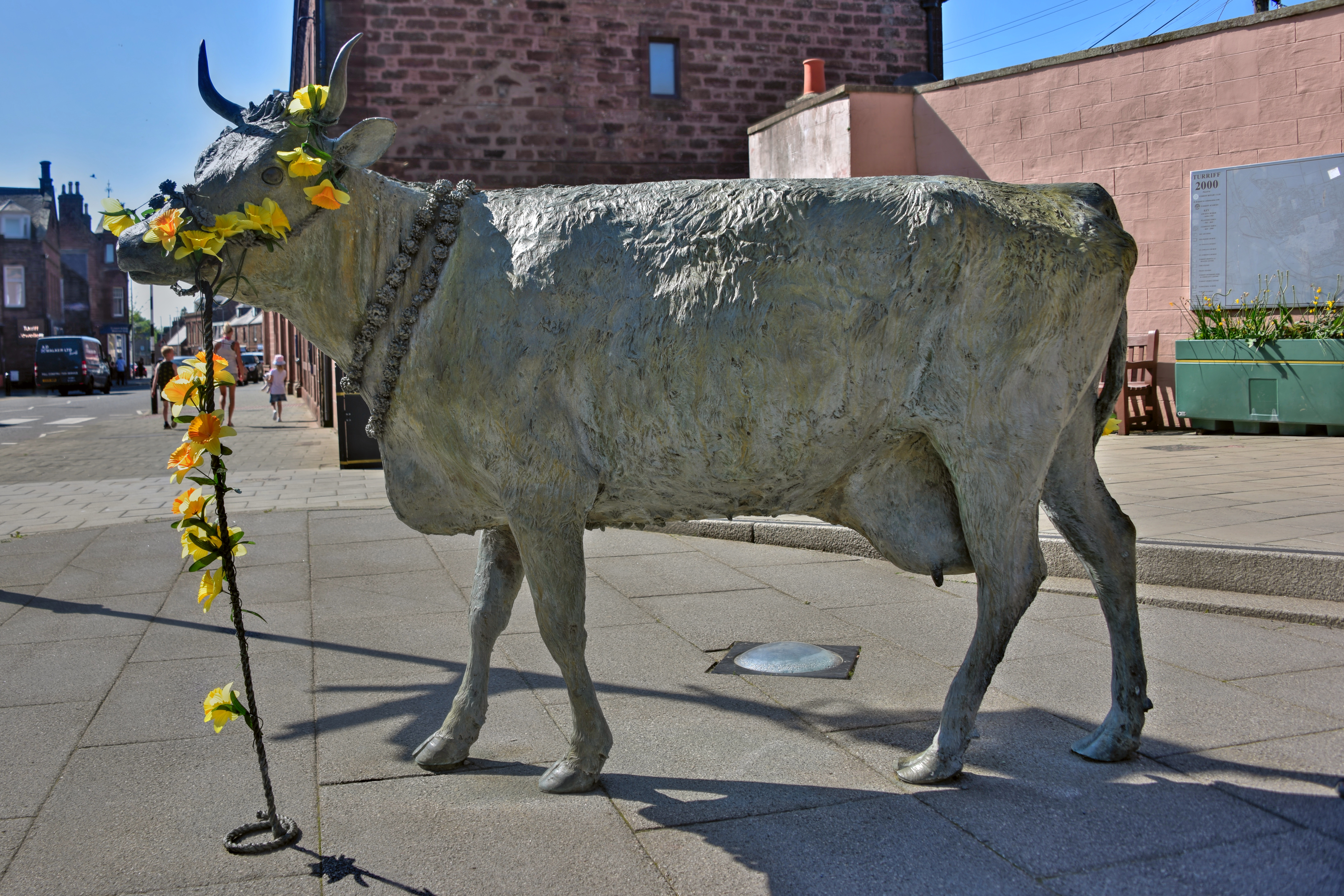 A statue in the center of Turriff, of a cow that was seized in 1913 from a farmer who refused to perform the British equivalent of Social Security withholding.